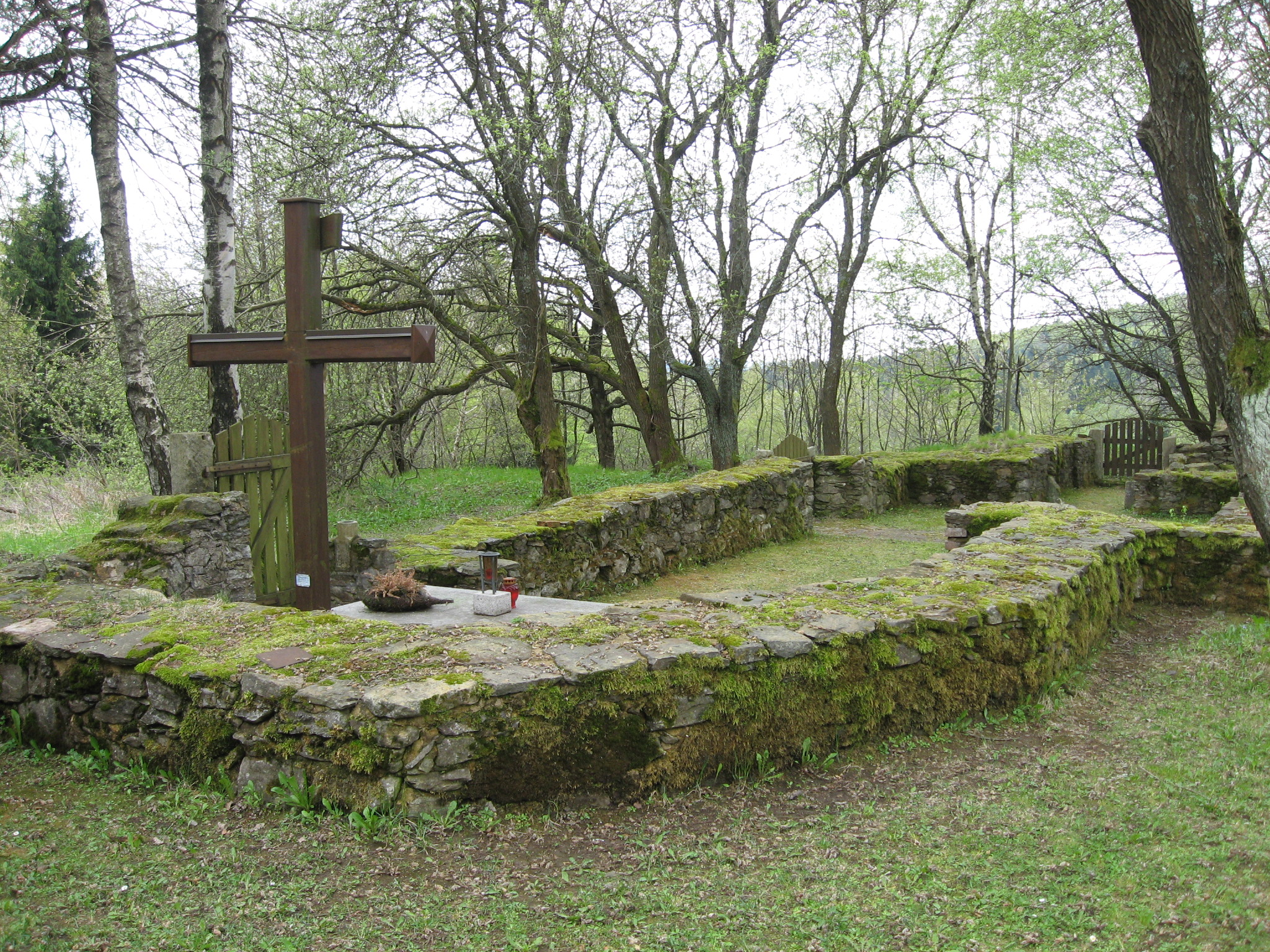 Pleš by Bělá nad Radbuzou - remains of the church, Domažlice District, Czech Republic